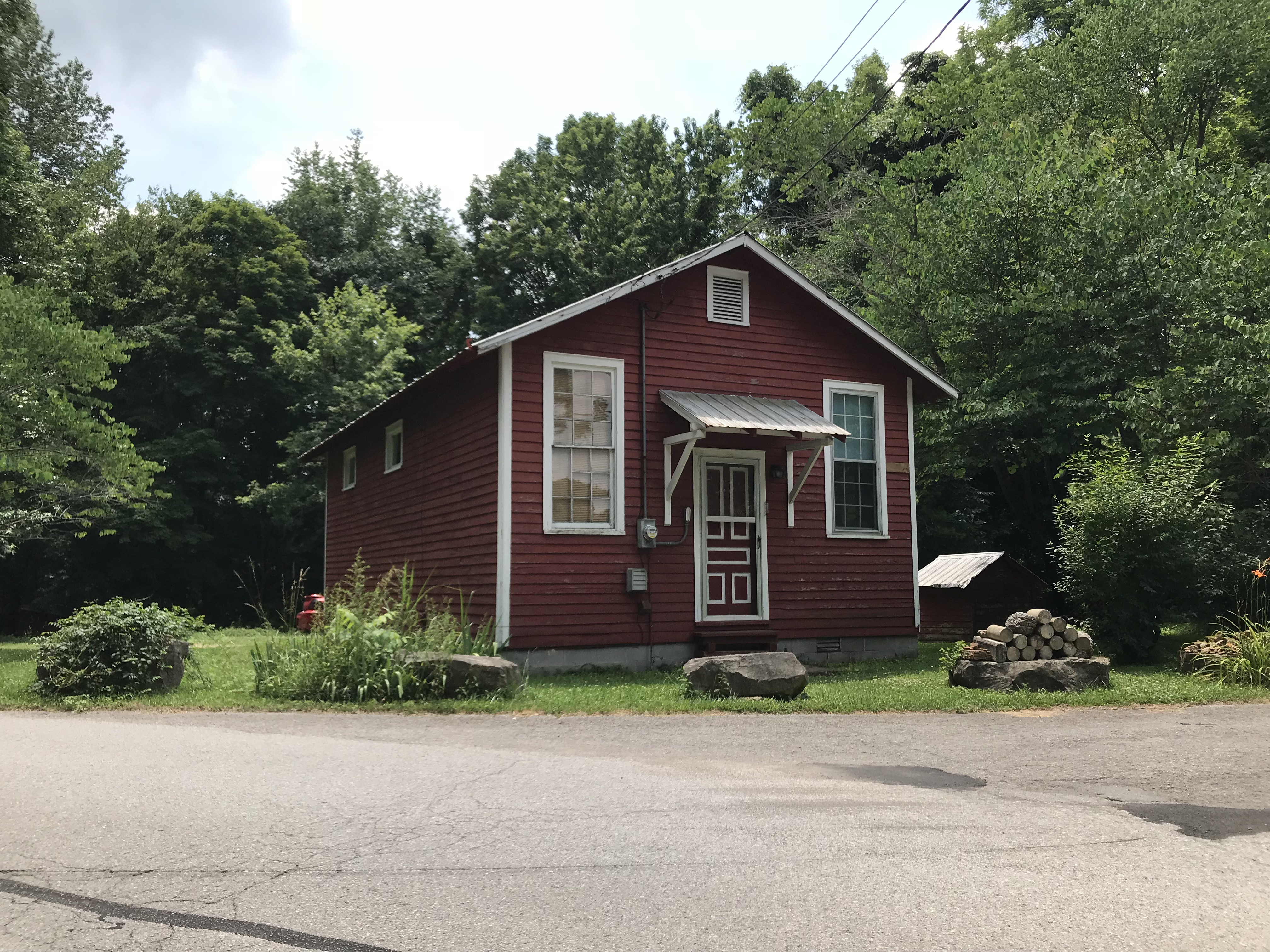 The Pasquo School is a Rosenwald School in Nashville, Tennessee. Photo is from 2018, when it was a private residence.